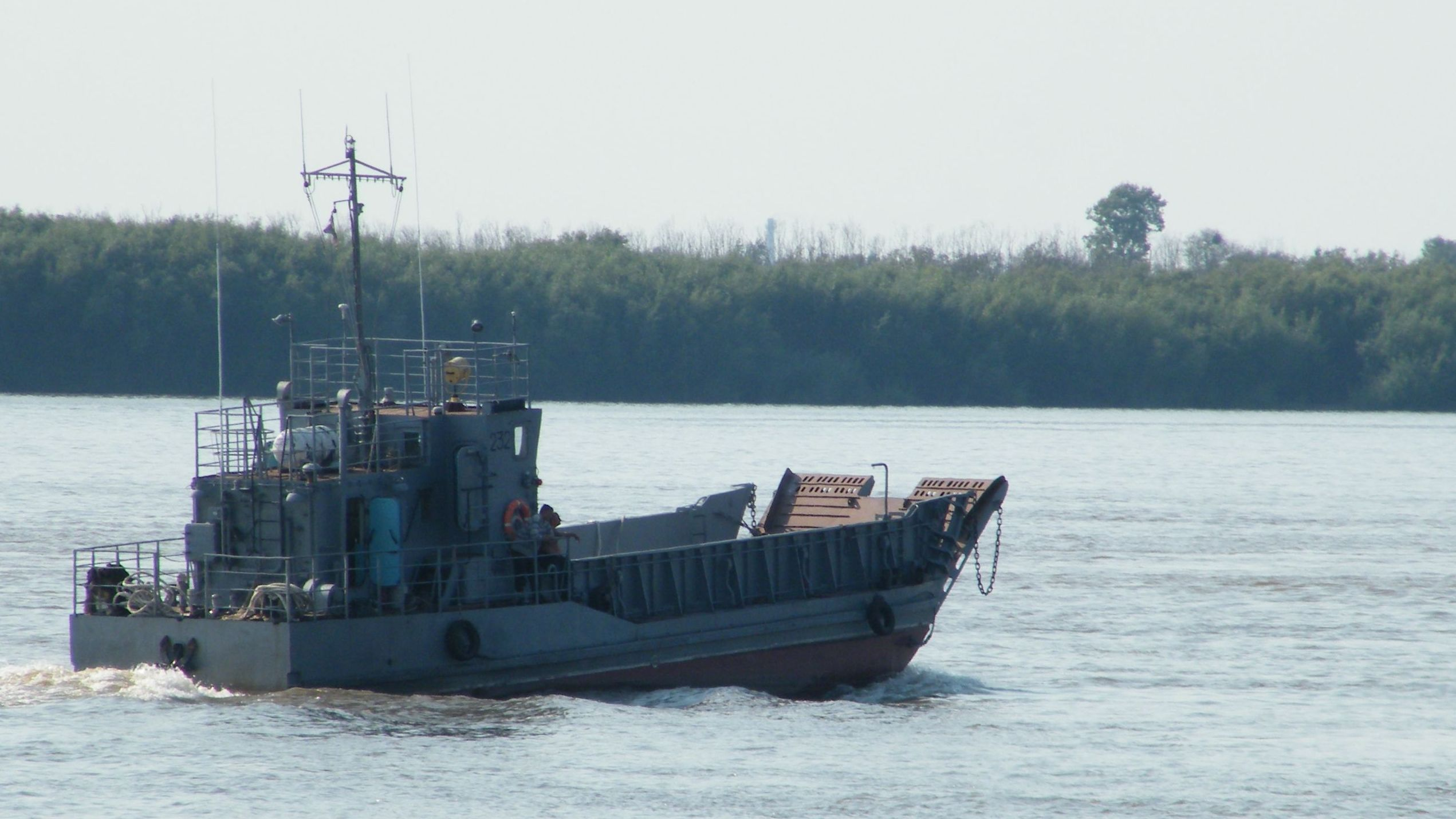 RBK-232 T-4 class landing boats Amur Military Flotilla